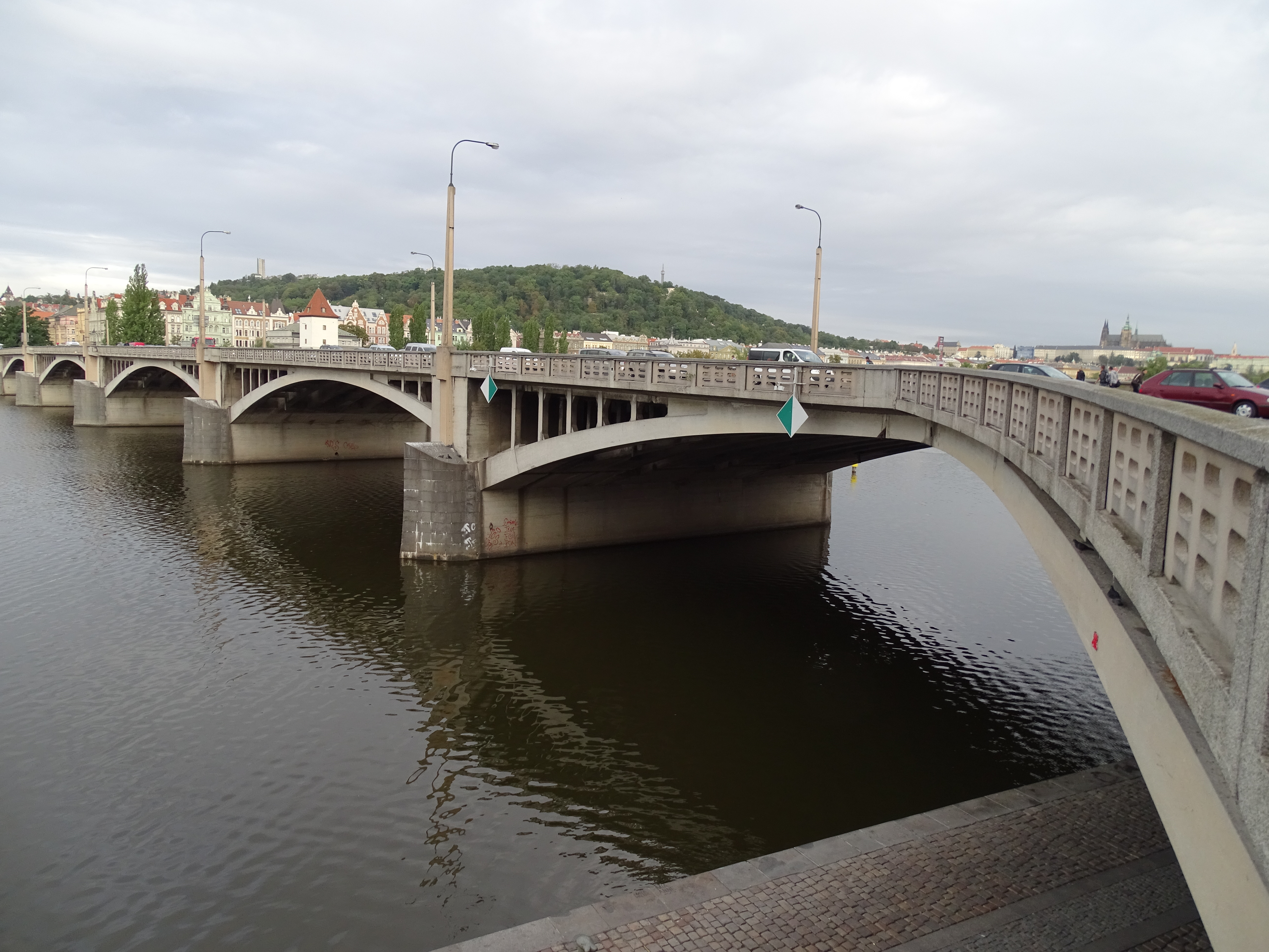 Prague-New Town and Malá Strana, Czech Republic. Palackého most, Petřín Hill.